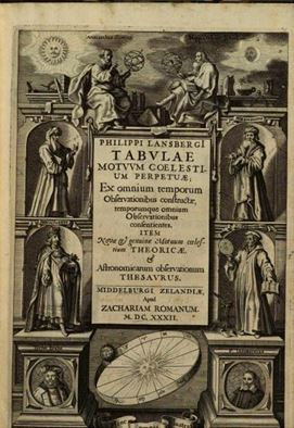 Front cover of Lansberg's Tabulae Motuum